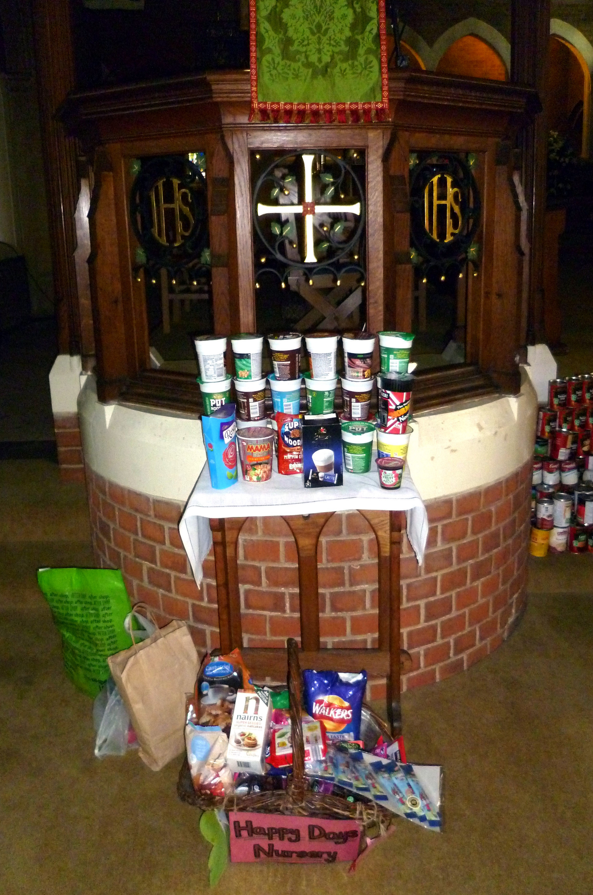 Harvest festival offerings at St Andrews Church, Southgate